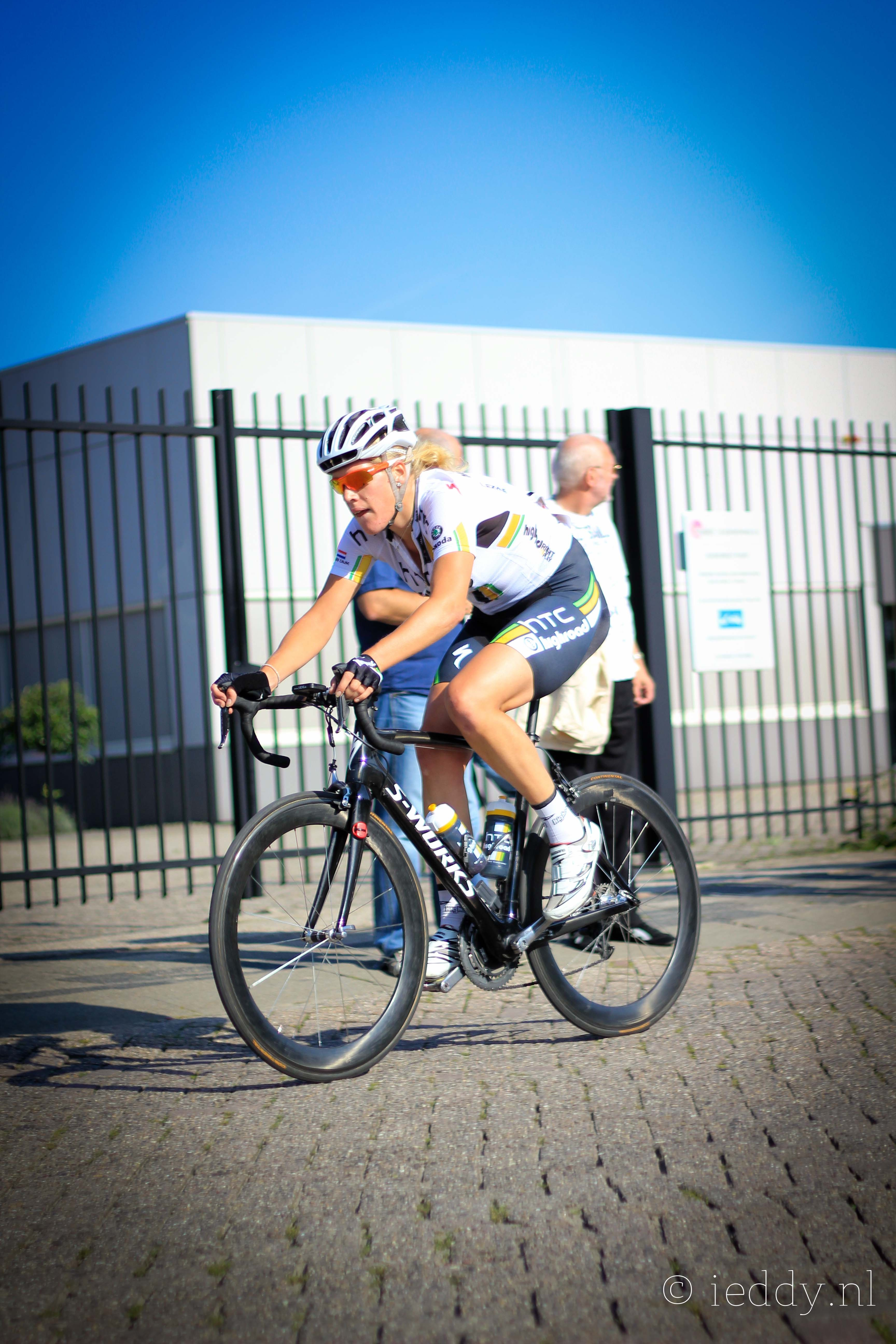 Ellen van Dijk at the Draai van de Kaai (2011)